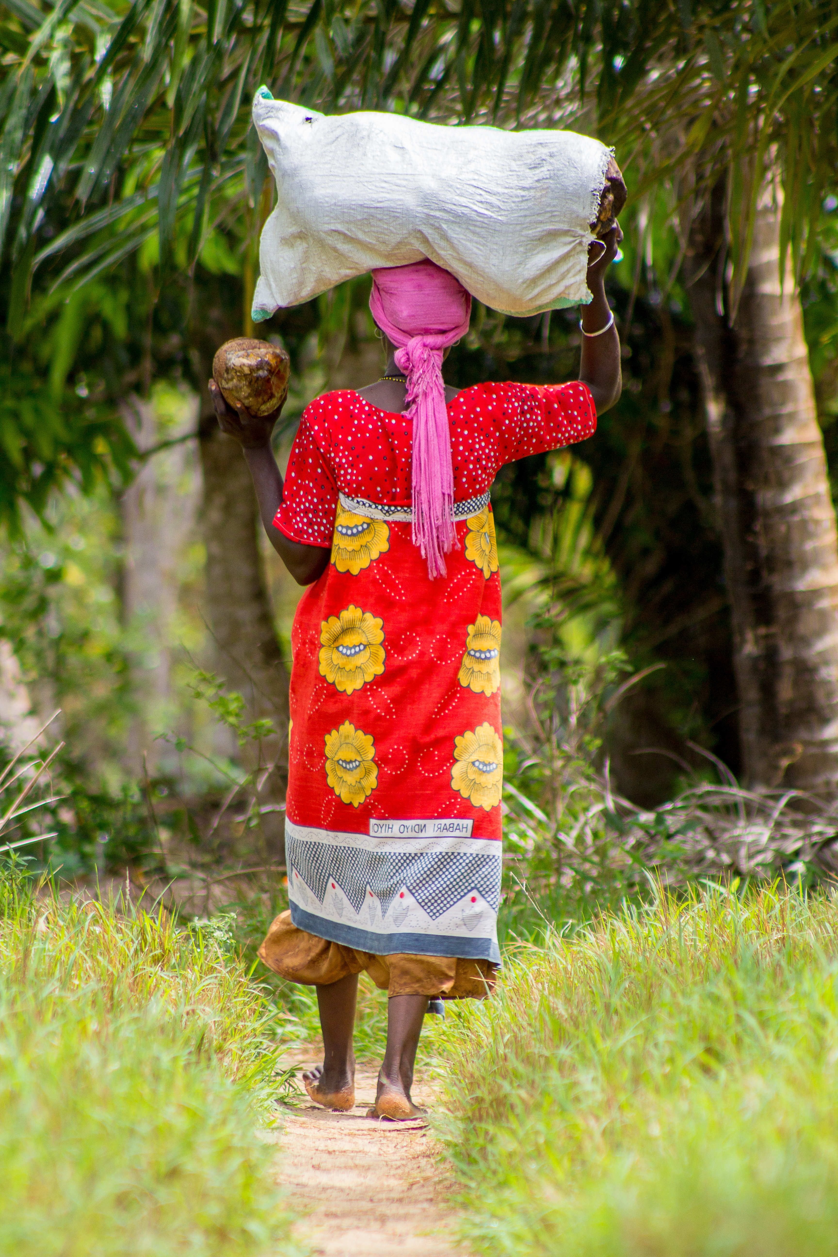 The life of African woman in mkuranga Tanzania This is an image of Cultural Fashion or Adornment from Tanzania